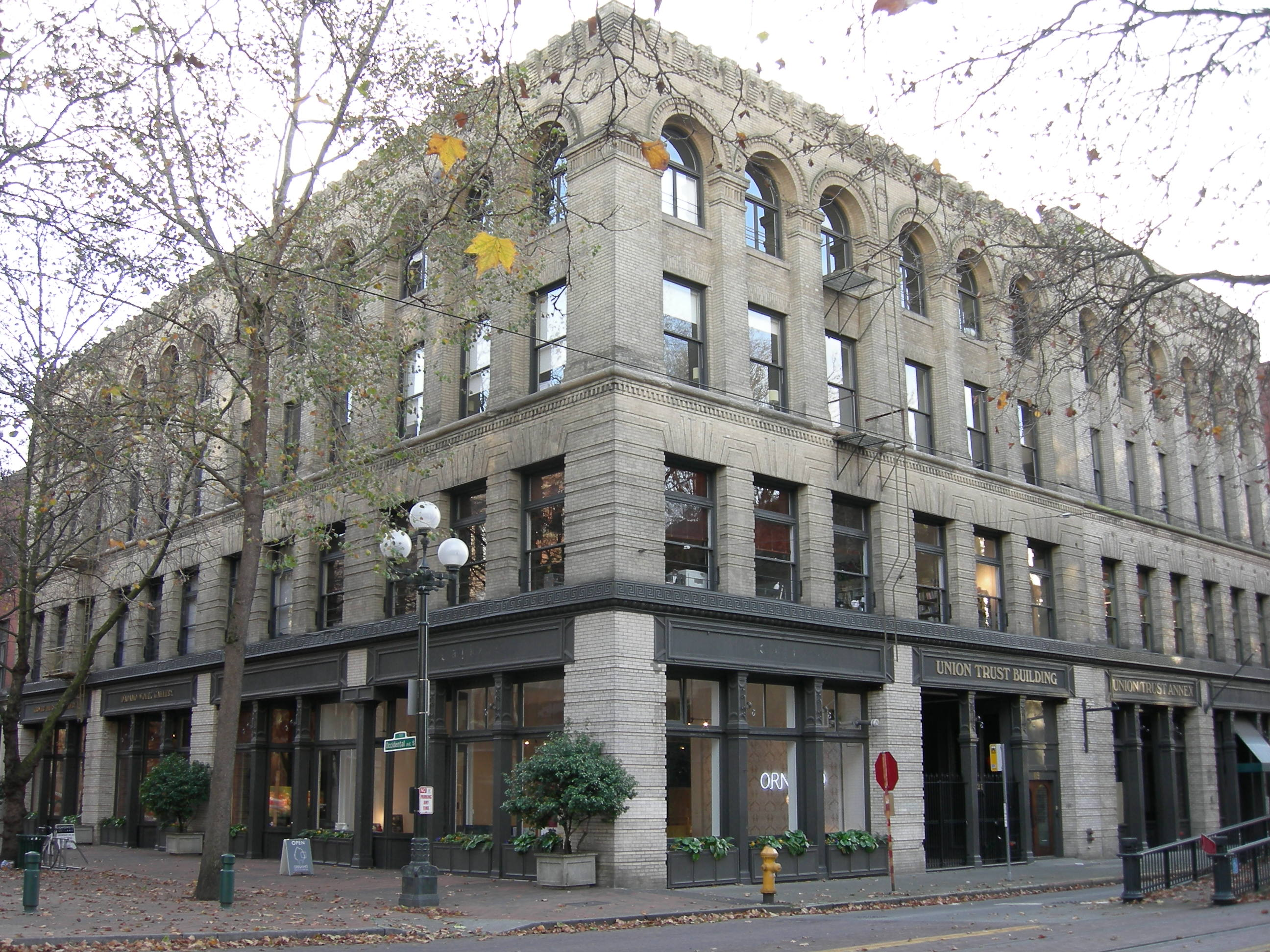 Union Trust Building (left, 119 South Main Street, built 1893) and Union Trust Annex (right, 117 South Main Street, built 1902), Pioneer Square neighborhood, Seattle, Washington, USA. The west face of the Union Trust Building (at left) is along Occidental Mall, and its ground floor has housed numerous art galleries in the last few decades. For many years, the Union Trust Annex was home to the Seattle Unit of the Klondike Gold Rush National Historical Park. In the 1960s, this pair of buildings were among the first in the Pioneer Square area (or, as it was better known then, Skid Road) to be rehabilitated; architect Ralph Anderson did the rehabilitation. For more information see Summary for 119 S Main ST S / Parcel ID 5247800360 for Union Trust Building and Summary for 117 S Main ST S / Parcel ID 5247800365 for Union Trust Annex, both on the site of the Seattle Department of Neighborhoods.